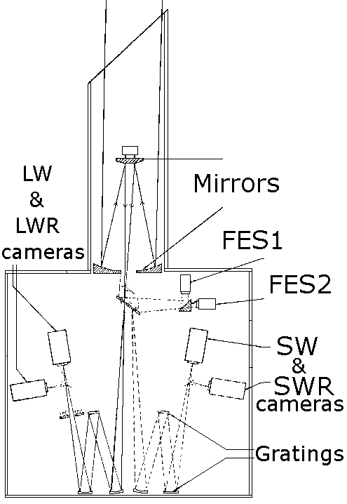 Simplified optical diagram of the telescope of the International Ultraviolet Explorer (after [1])